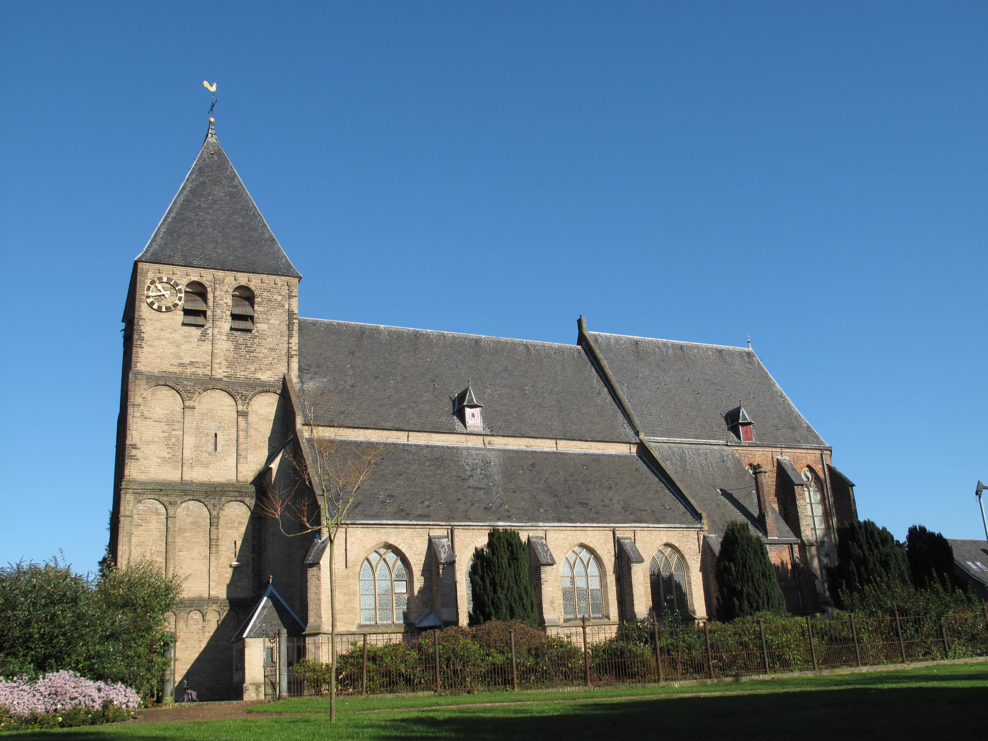 Rheden, church